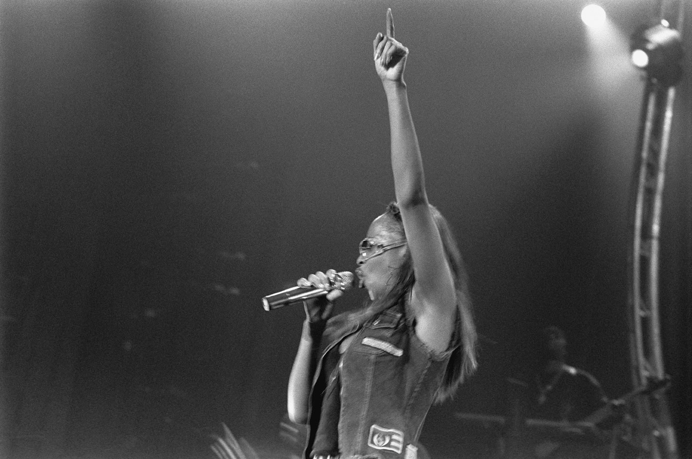 Hamburg/Germany 2000